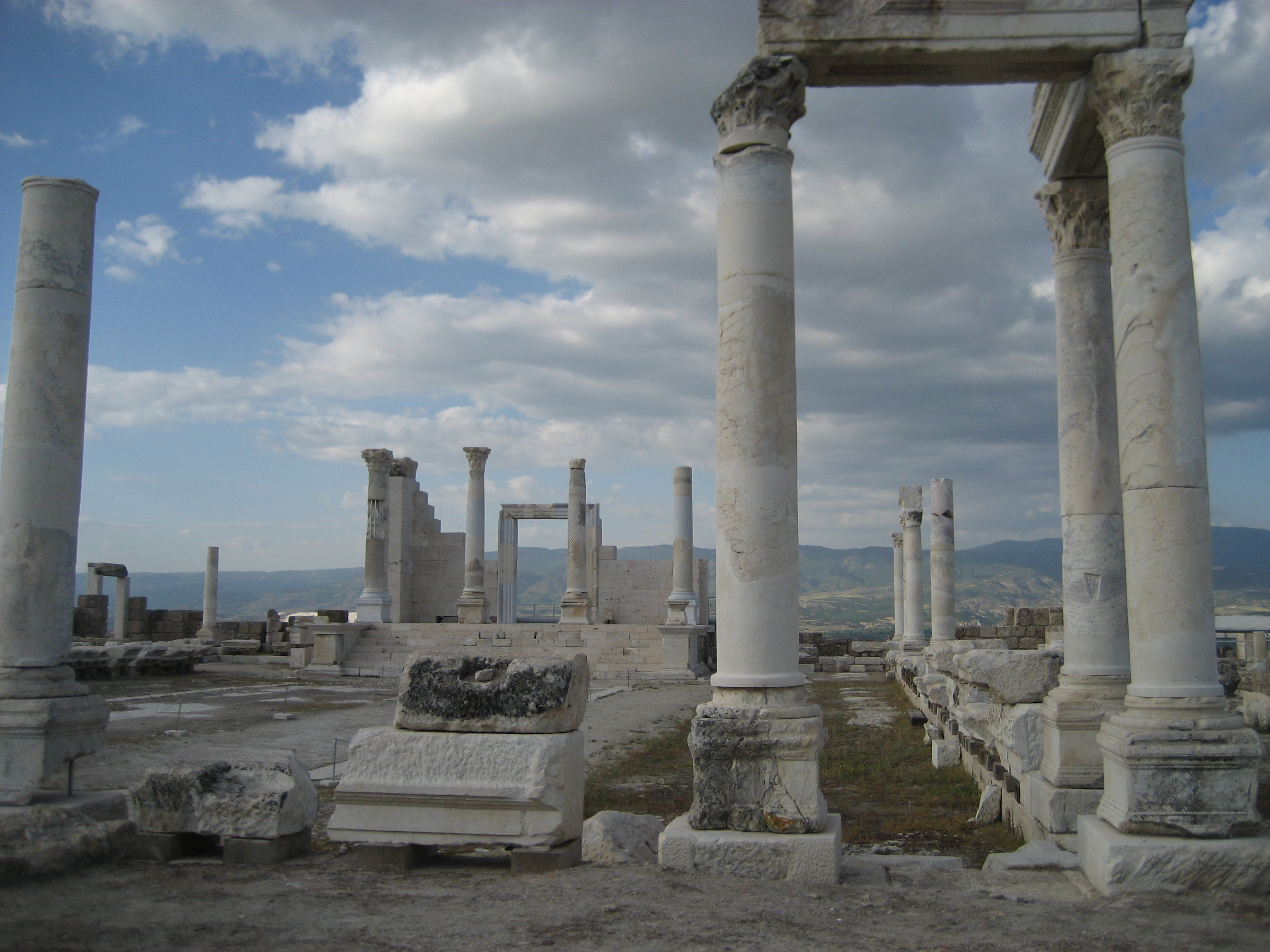 temple